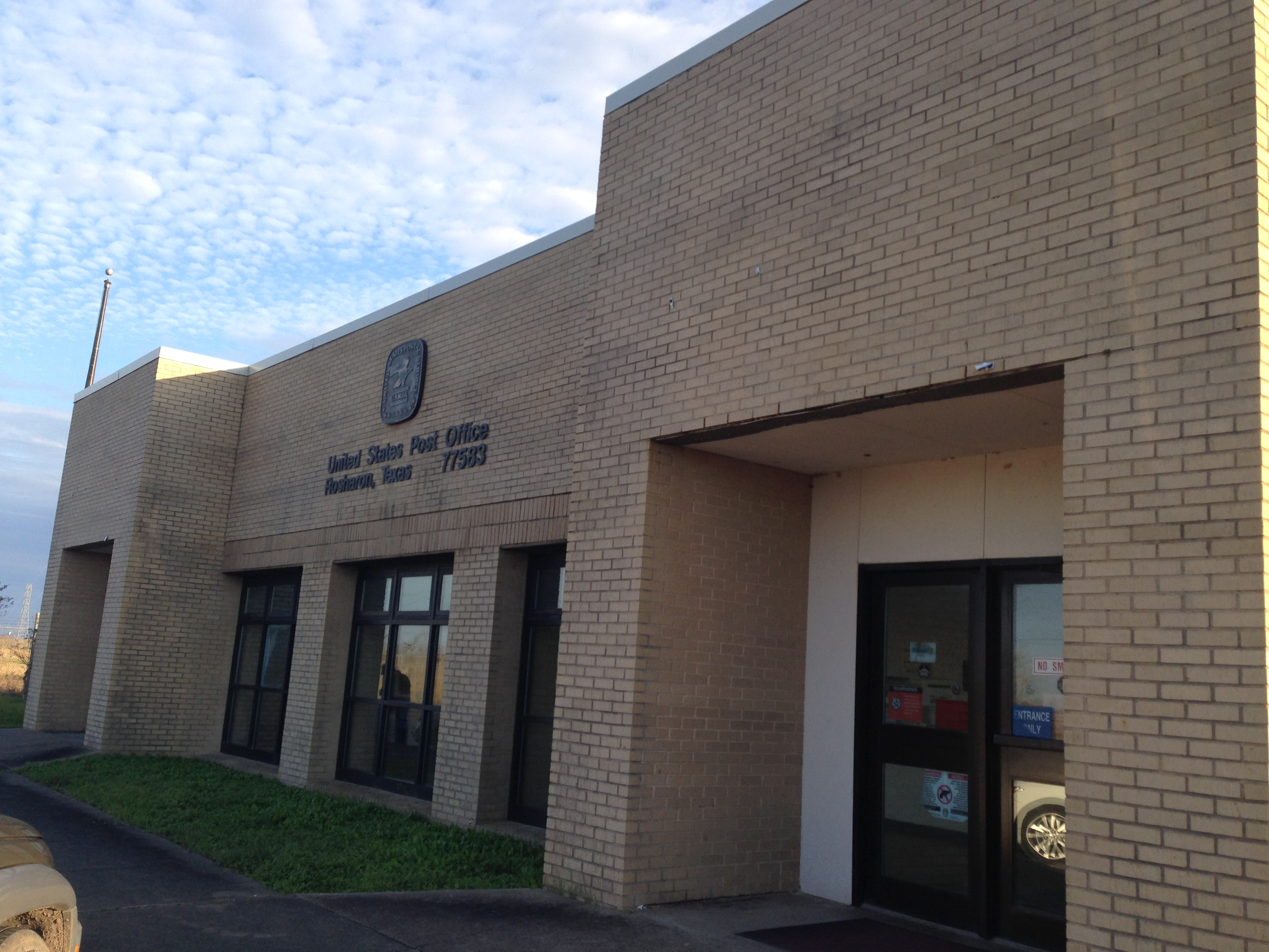 USPS Post Office in Rosharon